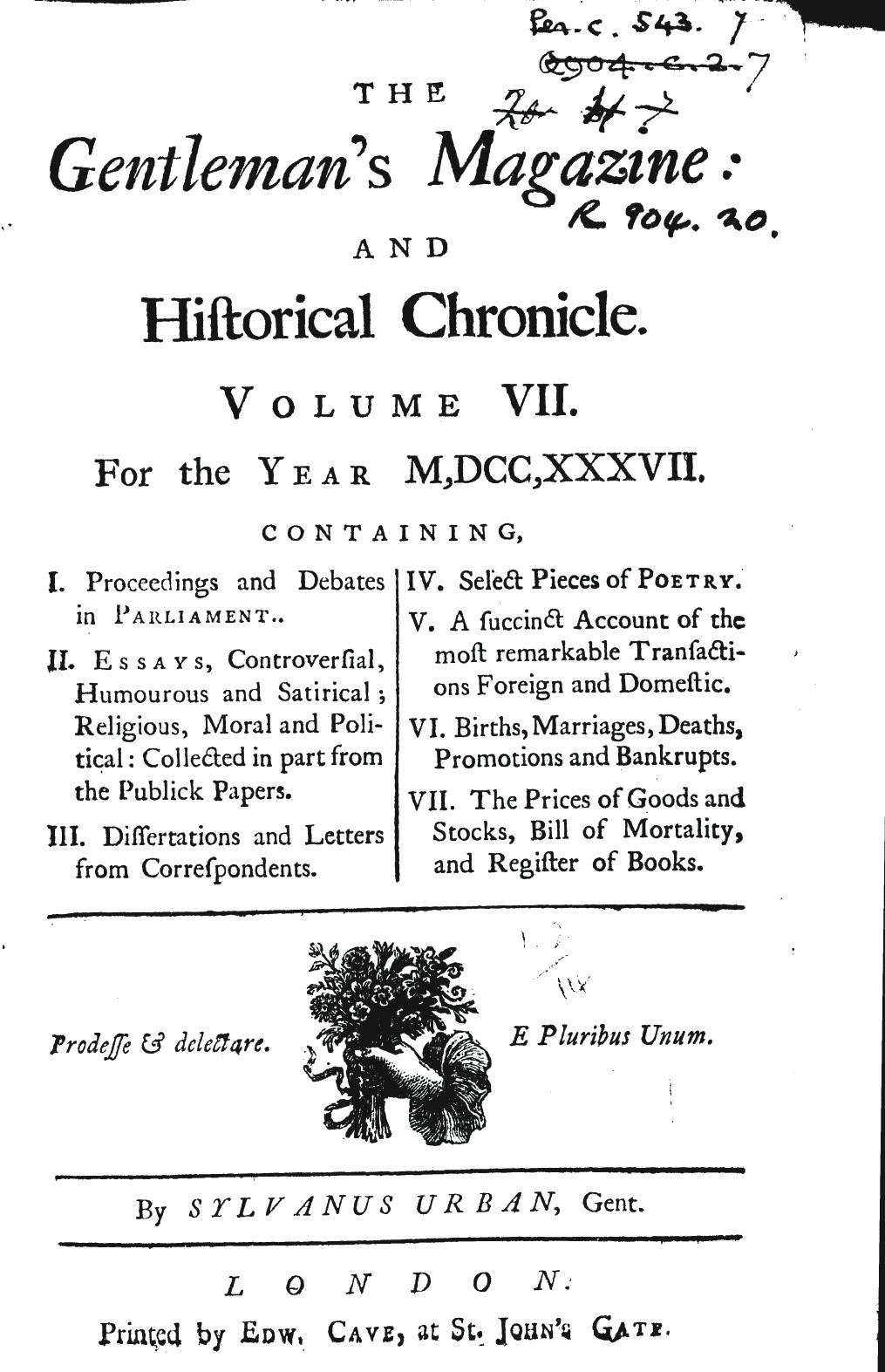 Title page of the Volume VII, 1737 issue of Gentleman's Magazine. In literate circles, this was a well-known and influential magazine in the American colonies, and was the probable source for the E Pluribus Unum motto.